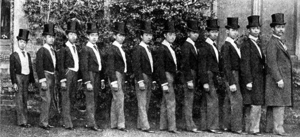 King Chulalongkorn Rama V of Siam, with a few of his sons at Eton.